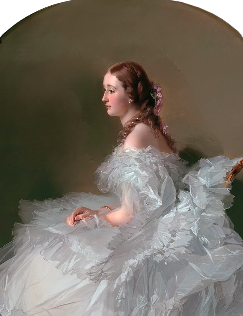 Lydia Schabelsky, Baroness Staël von Holstein oil on canvas 143.19 x 109.22 cm circa 1857–1858